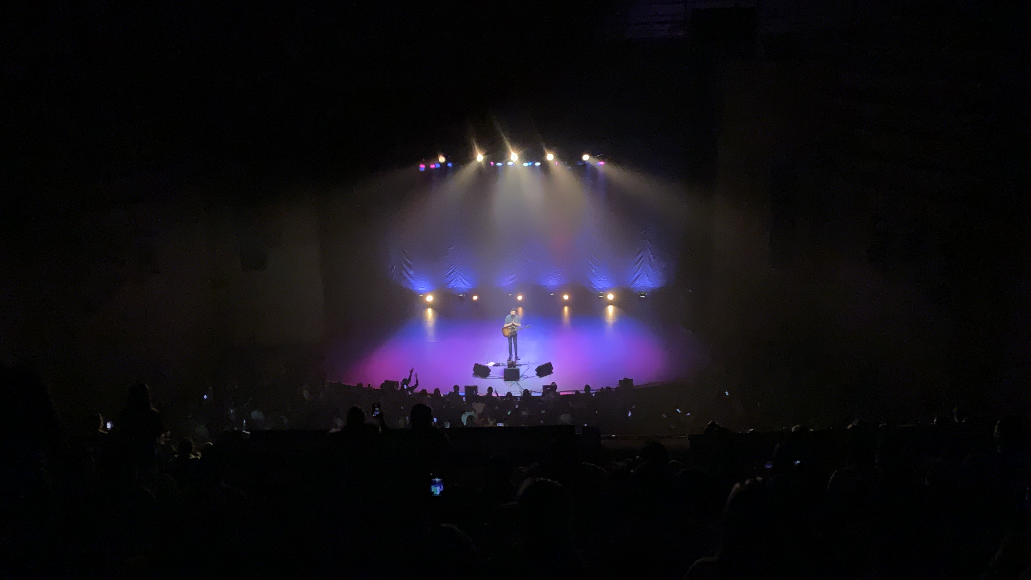 Passenger singing live in Bogotá Colombia